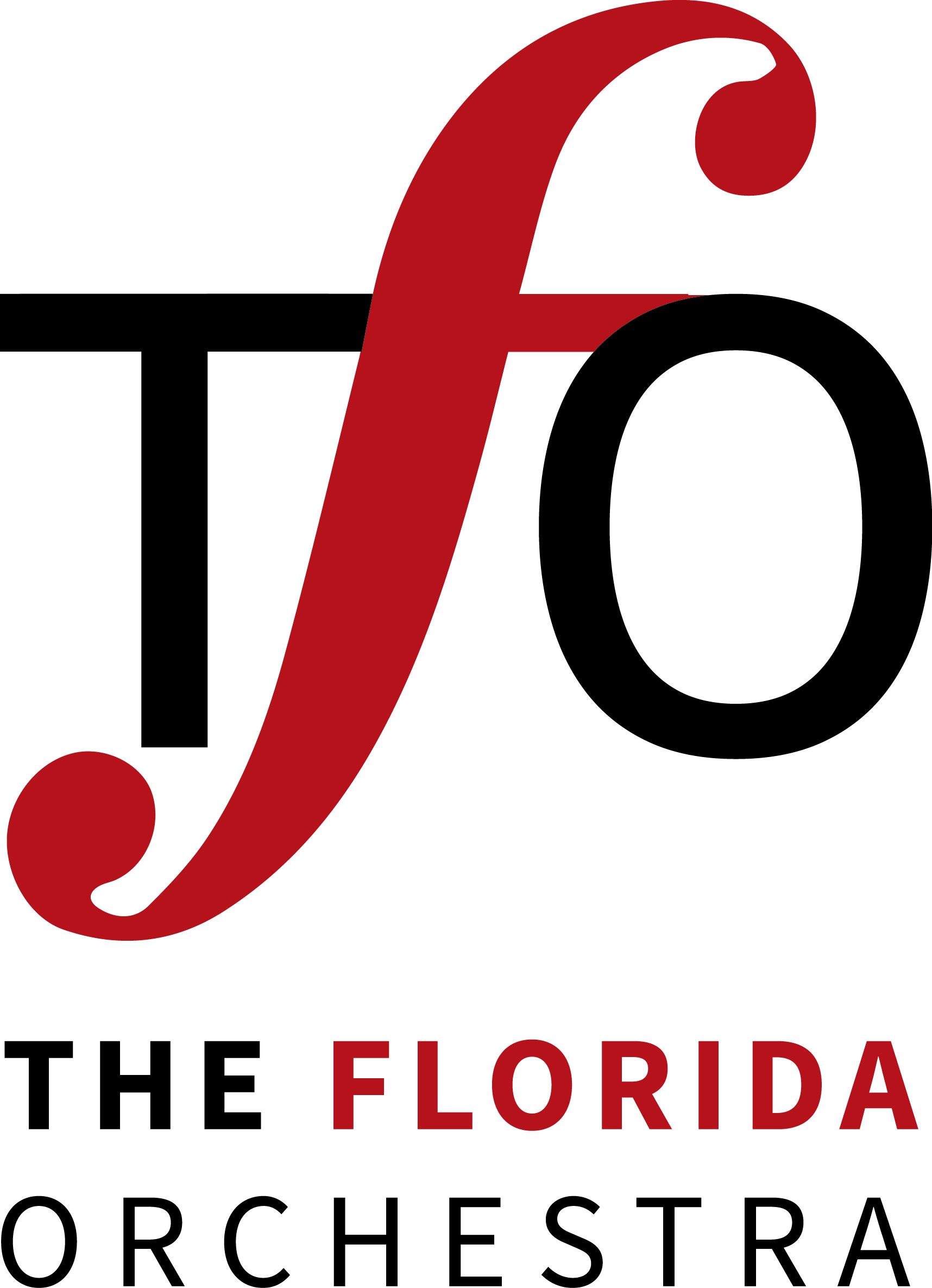 Florida Orchestra logo redesigned for the 2015/2016 season